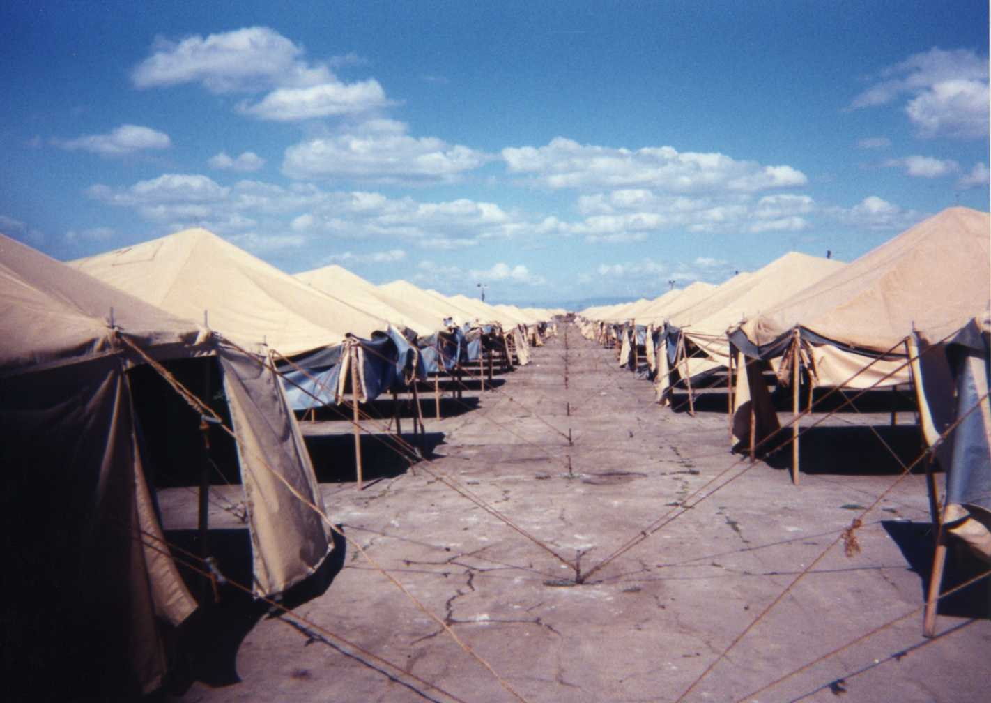 Joint Task Force 160-2